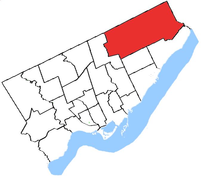 Map of the York—Scarborough electoral district showing its borders from 1976 to 1987. Created by SimonP.